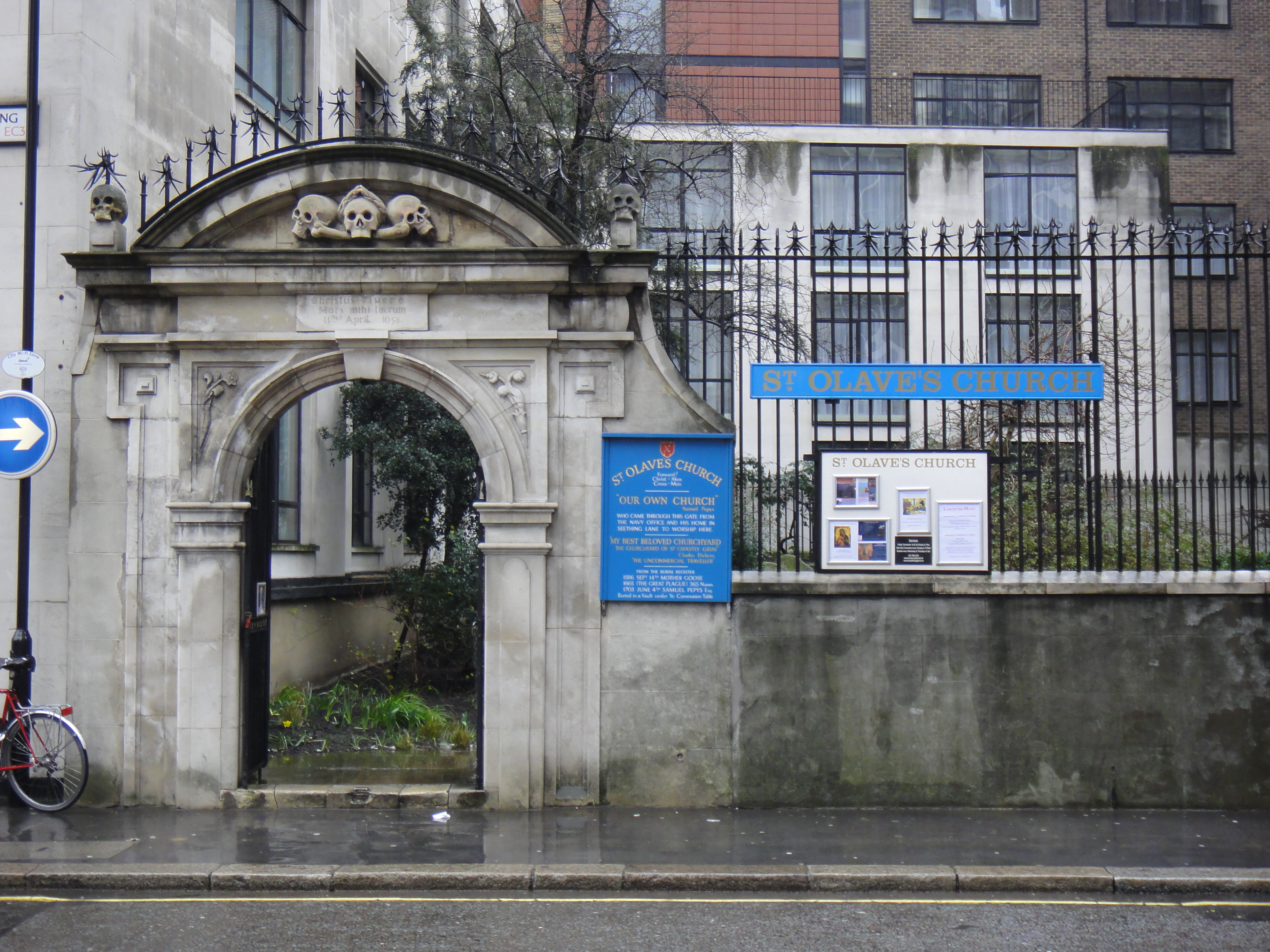 St Olave Hart Street, London